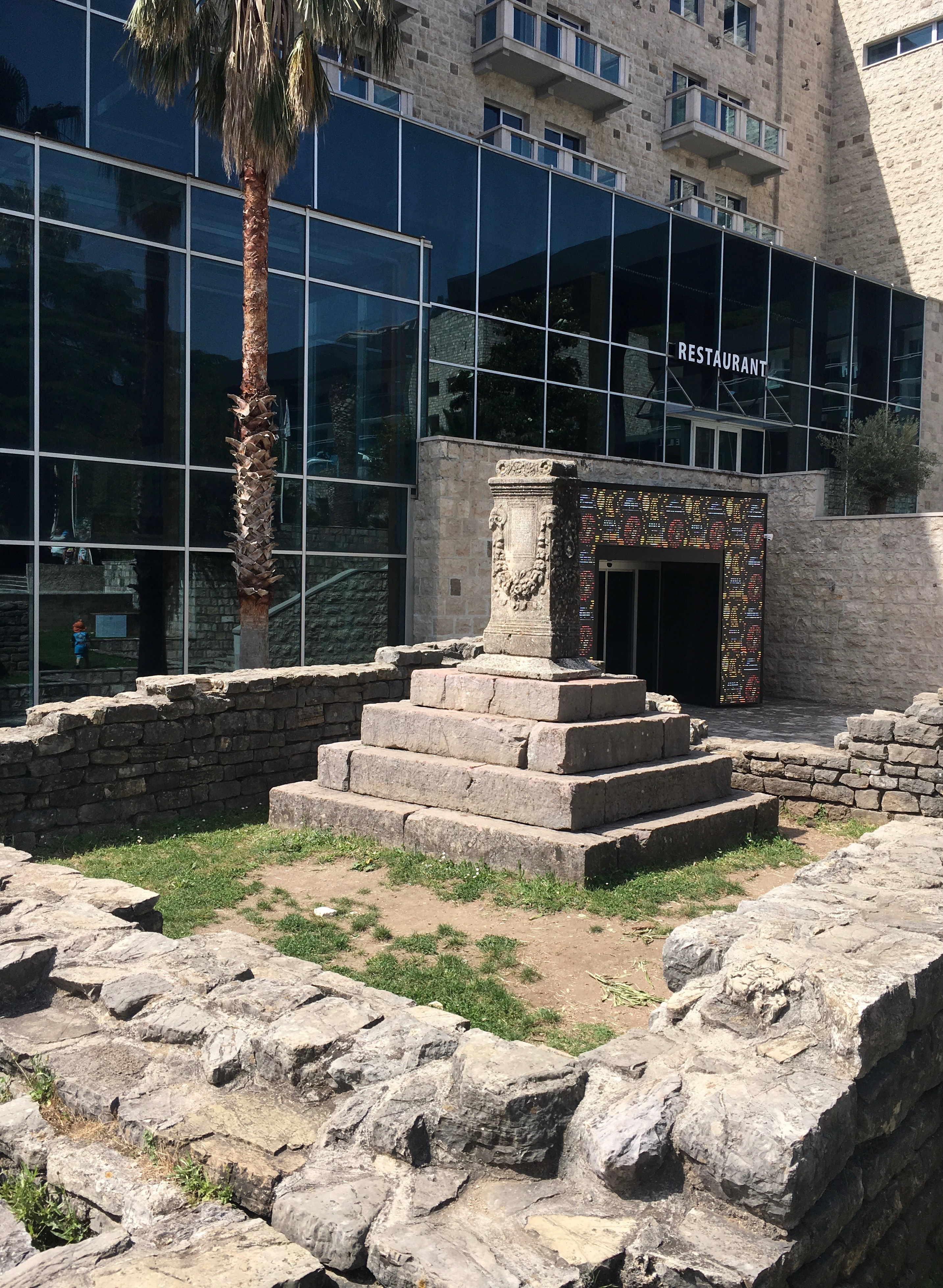 Ruins of Ancient Roman necropolis close to Budva Old Town (Montenegro).